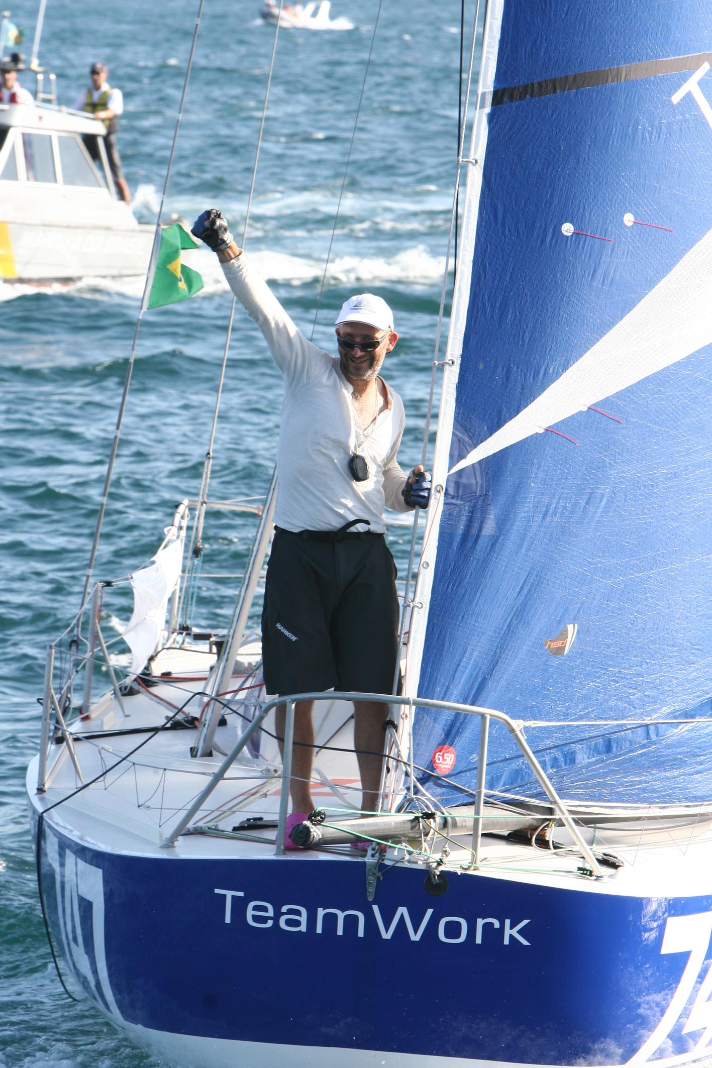 David Raison and his boat 747 TeamWork. Winner of 2011 Mini Transat.